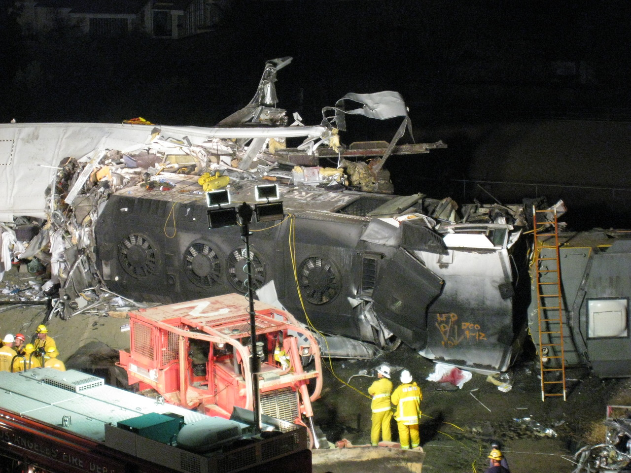 Firefighters stand near a locomotive on September 12, 2008 after a Metrolink passenger liner collided with a Union Pacific freight train near Chatsworth, California.